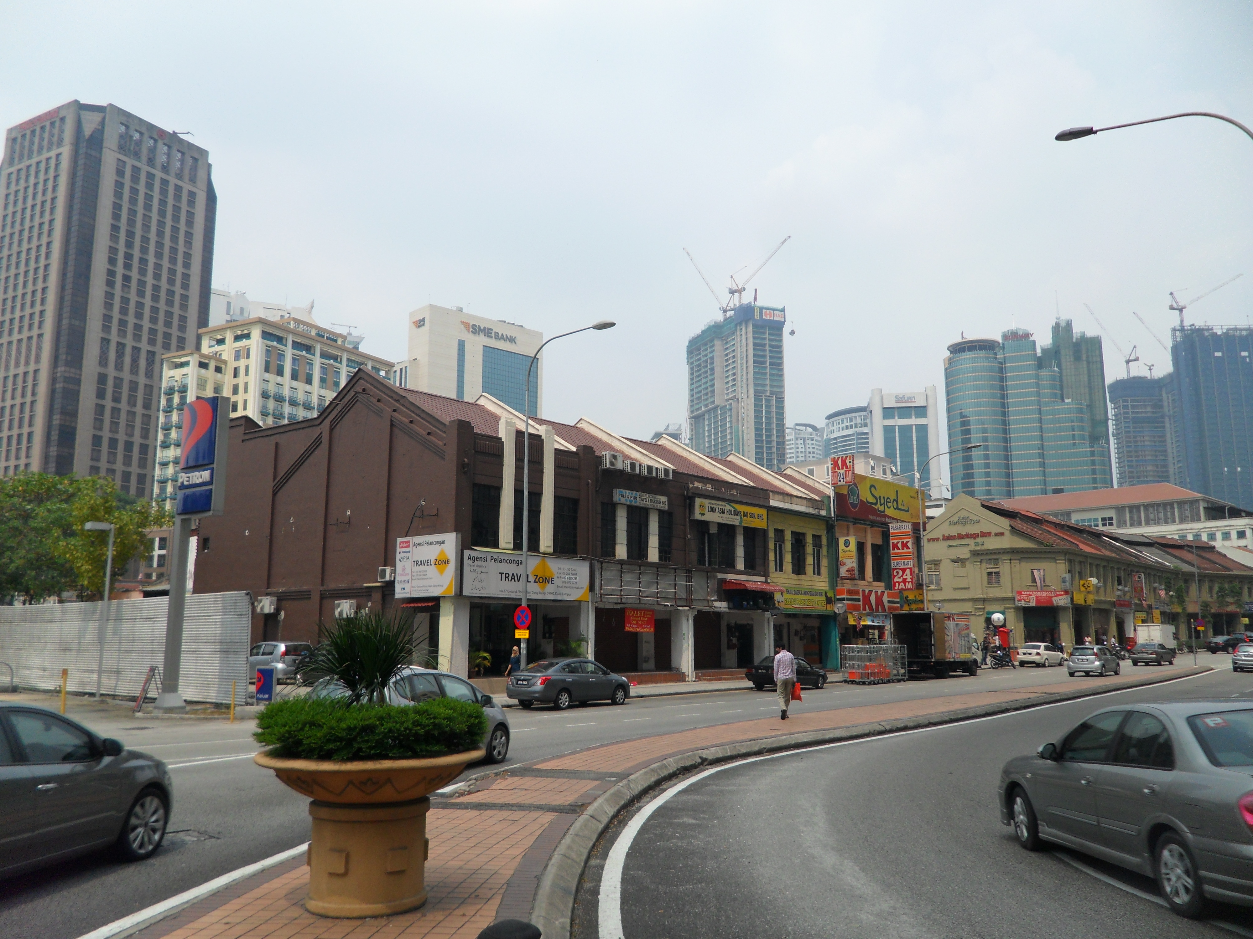 1930s Art Deco shophouses along Jalan Dang Wangi (Campbell Road), Kuala Lumpur.